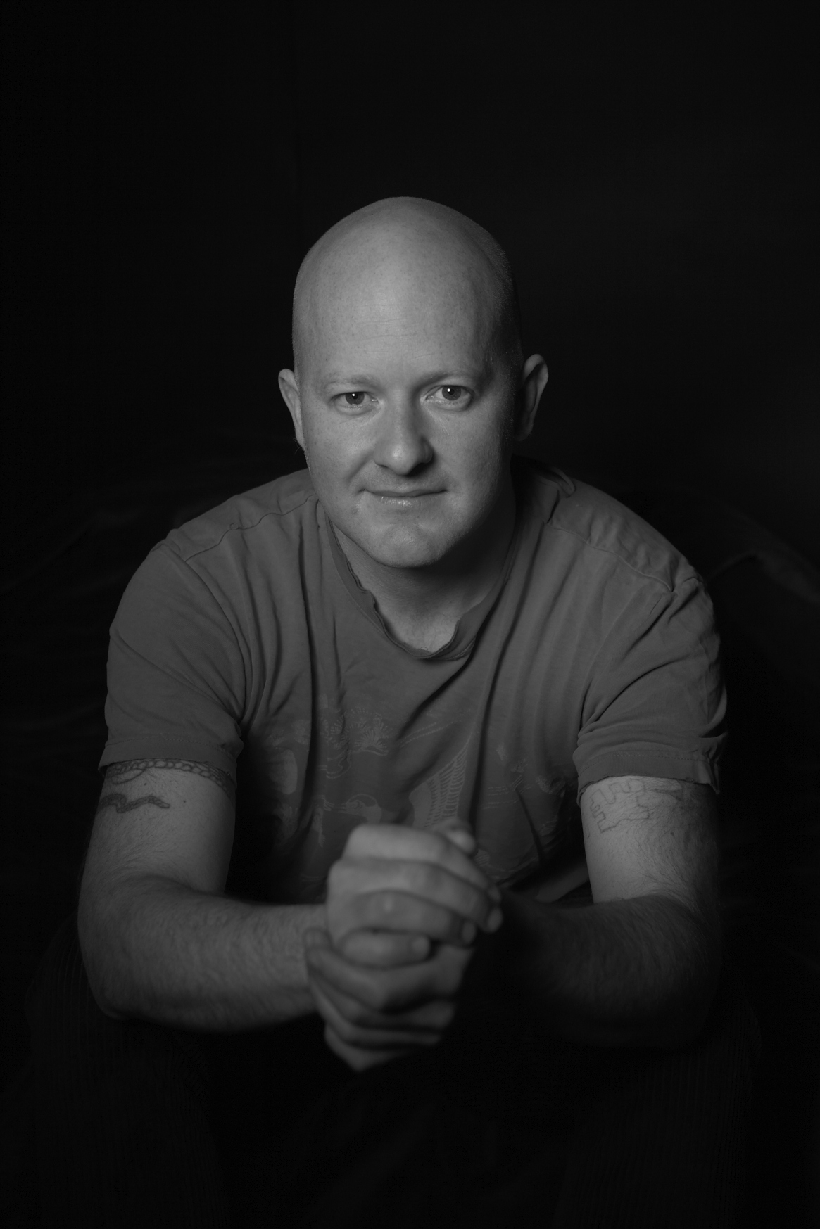 Portrait of music composer Tristin Norwell